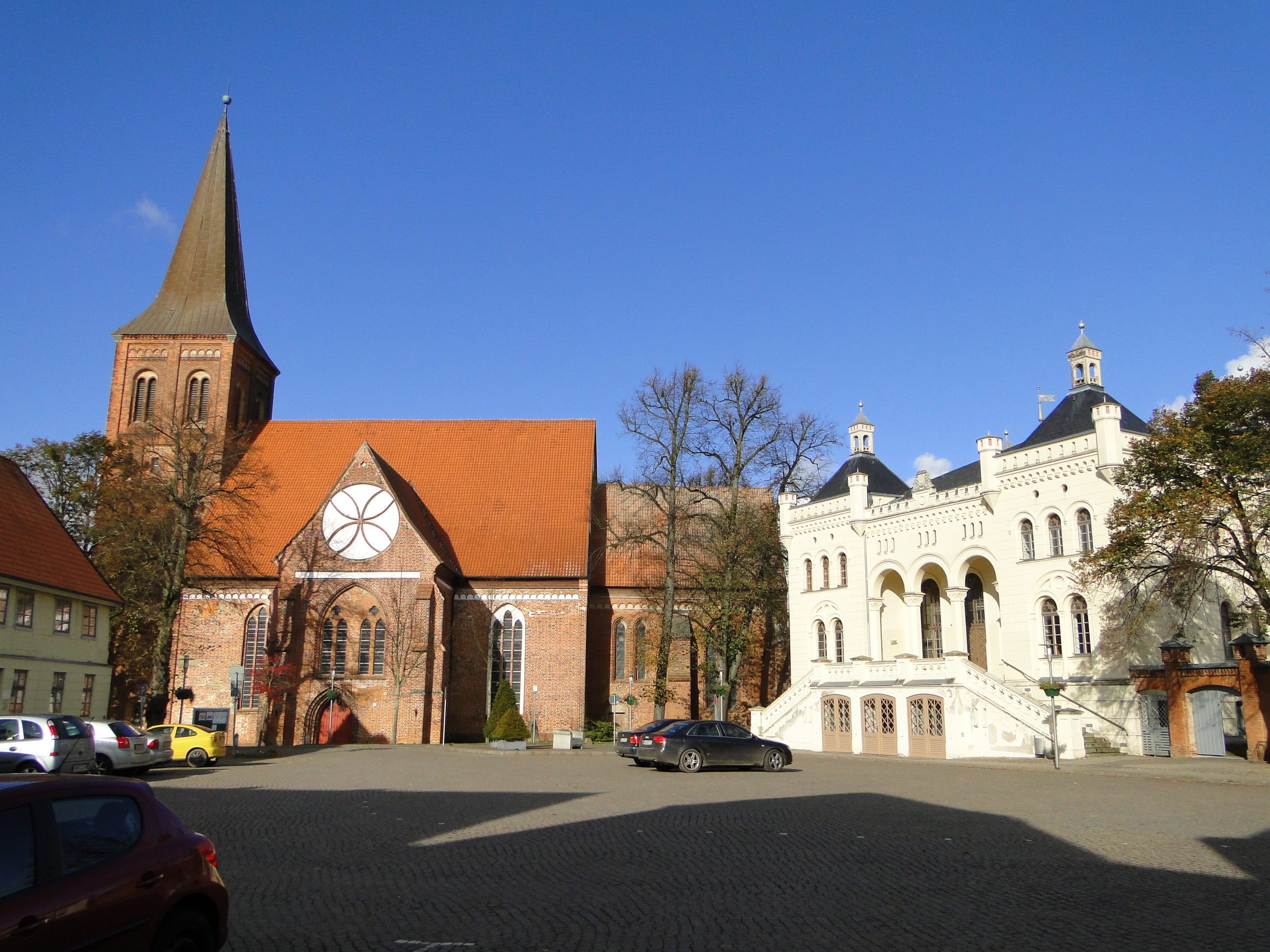 Church St. Bartholomäus and town hall at market square in Wittenburg, district Ludwigslust-Parchim, Mecklenburg-Vorpommern, Germany